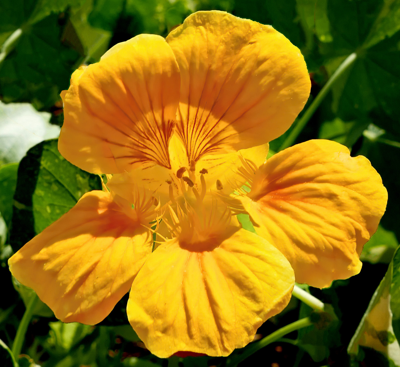 Nasturtium -- Tropaeolum